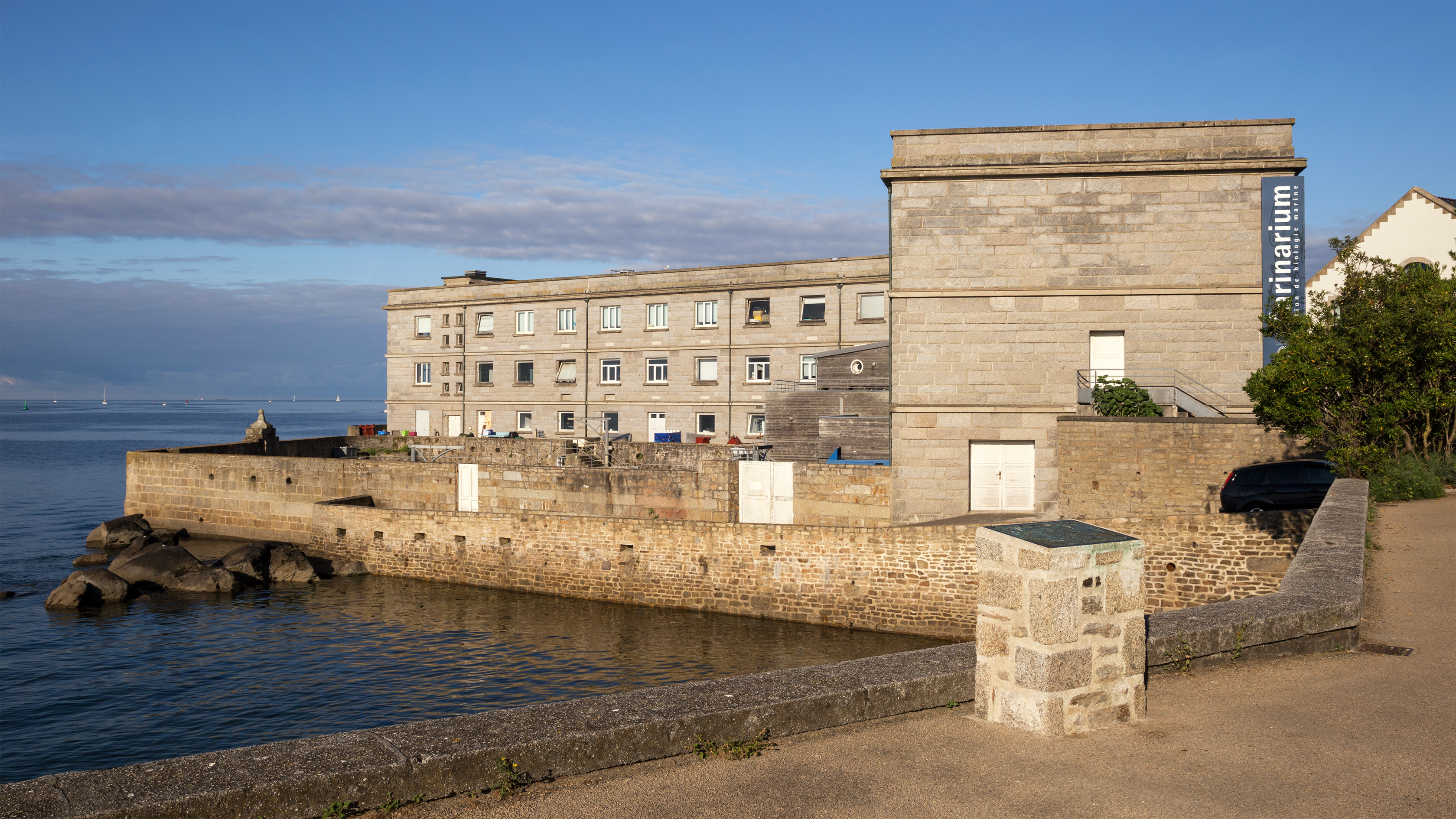 Concarneau, Brittany, Marinarium